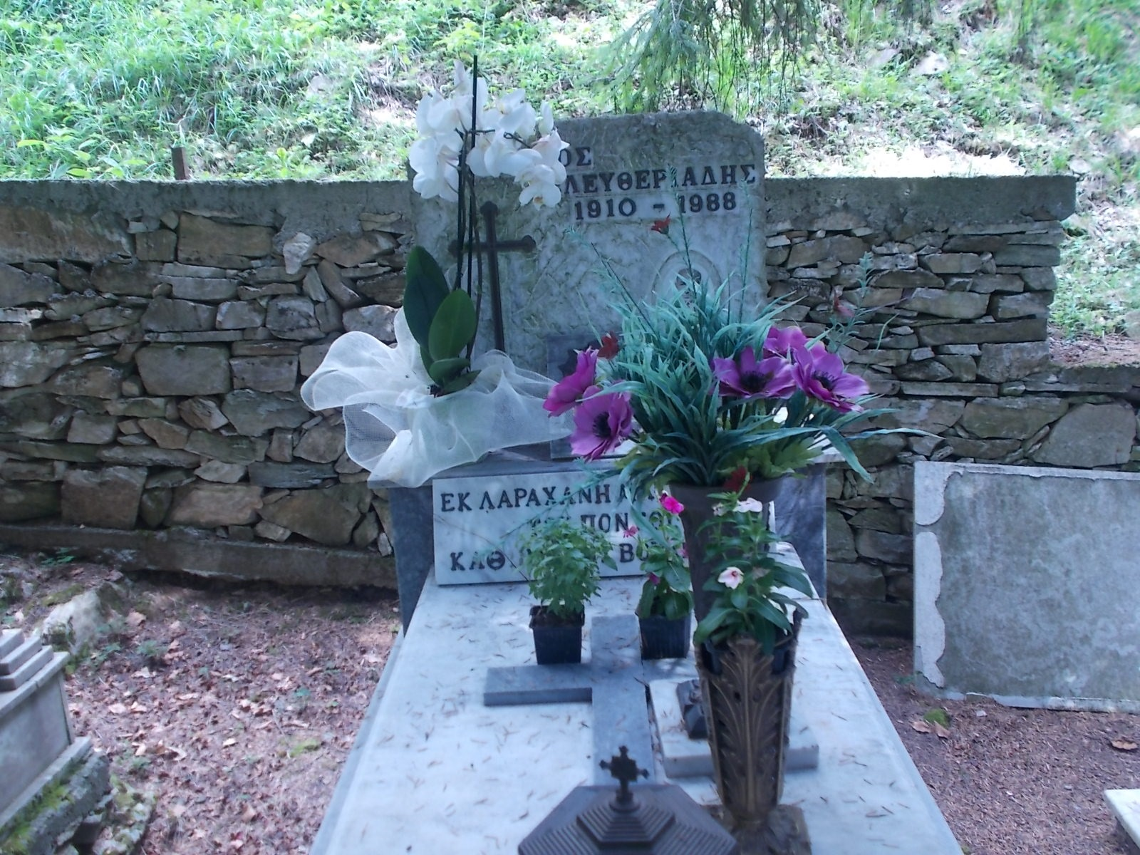 Eleftherios Eleftheriadis tomb